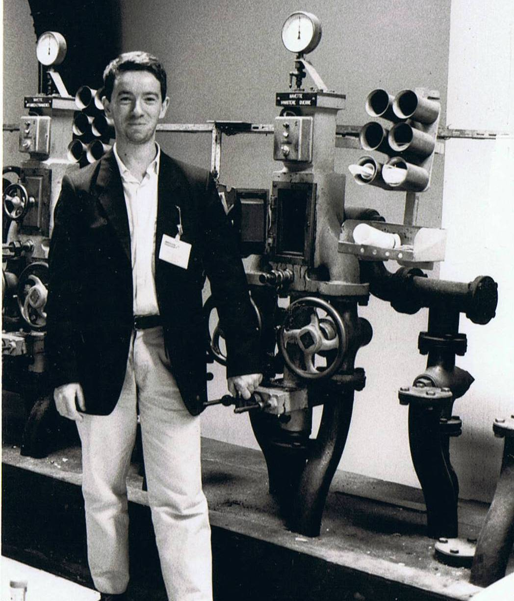 Pneumatic post-office tube terminal Fortin-Hermann, 100 years old still in use at Paris-Central in 1987 on the minis